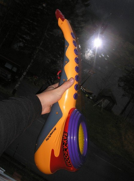 The Sax-a-Boom